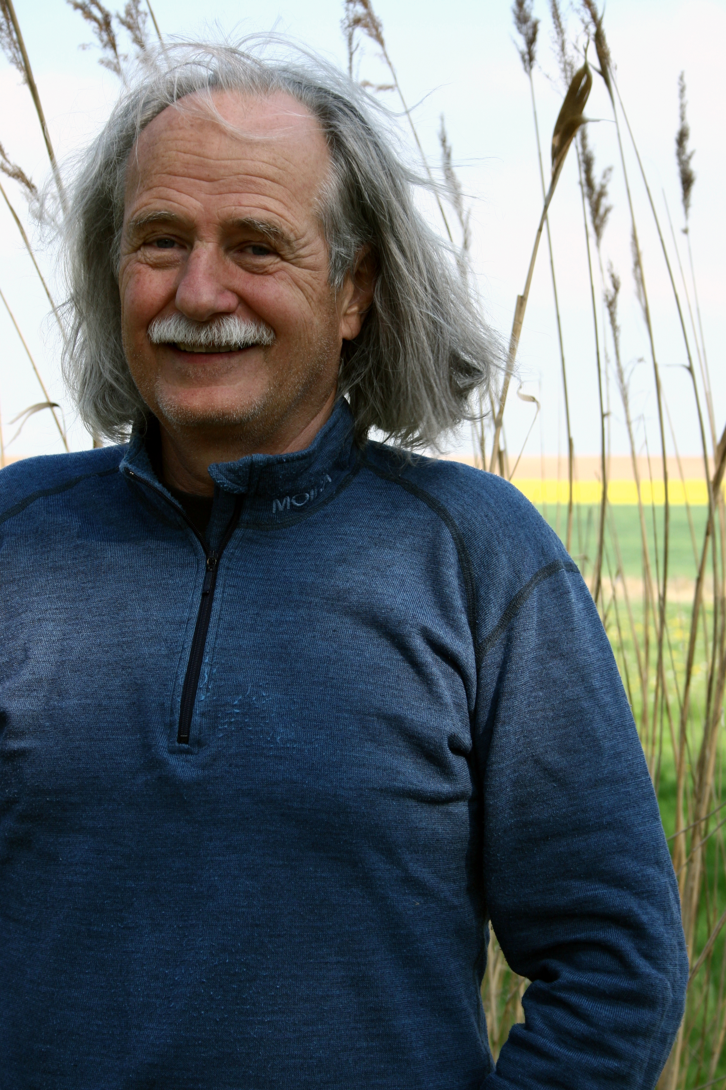 Jan Ságl photographer